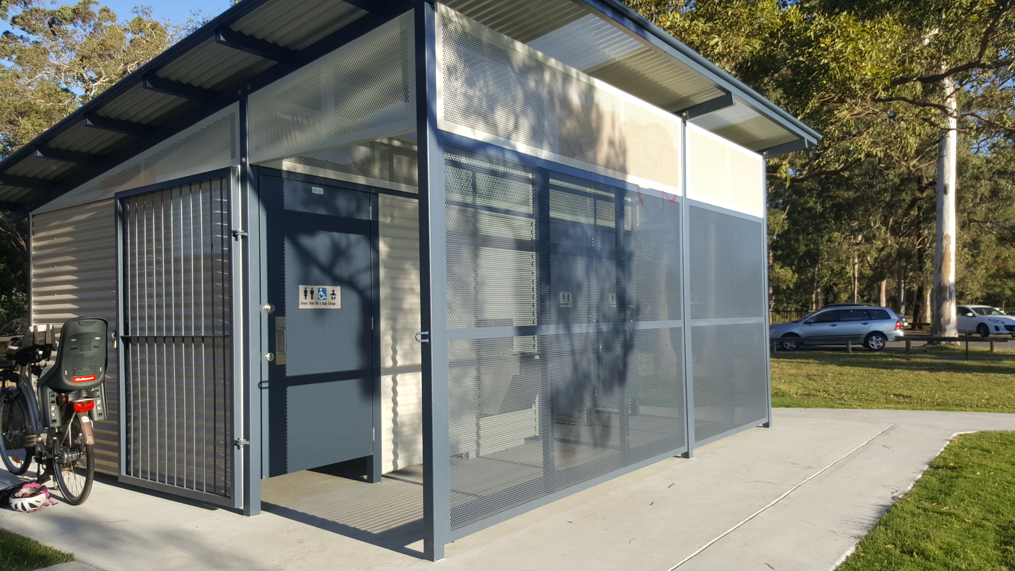 Accessible public toilet block at a playground in Brisbane suburb of Wishart. Note the wide and even access paths, suitable for wheelchair users. There is one handwash basin outside of the cubicles (undercover). Accessible toilet, handicapped toilet, unisex toilet